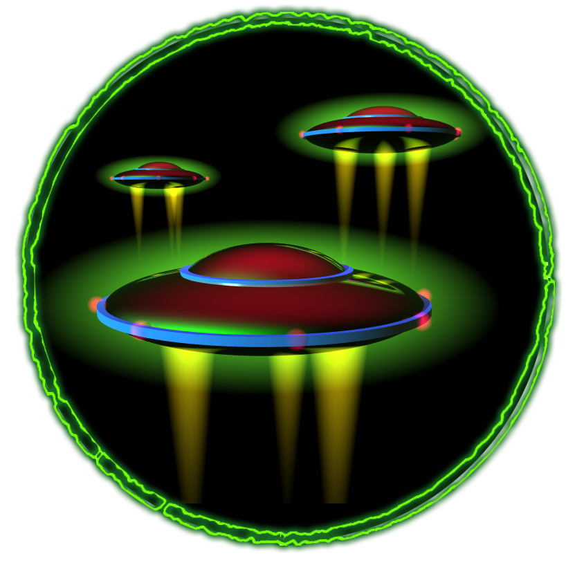 UFO illustration made by myself